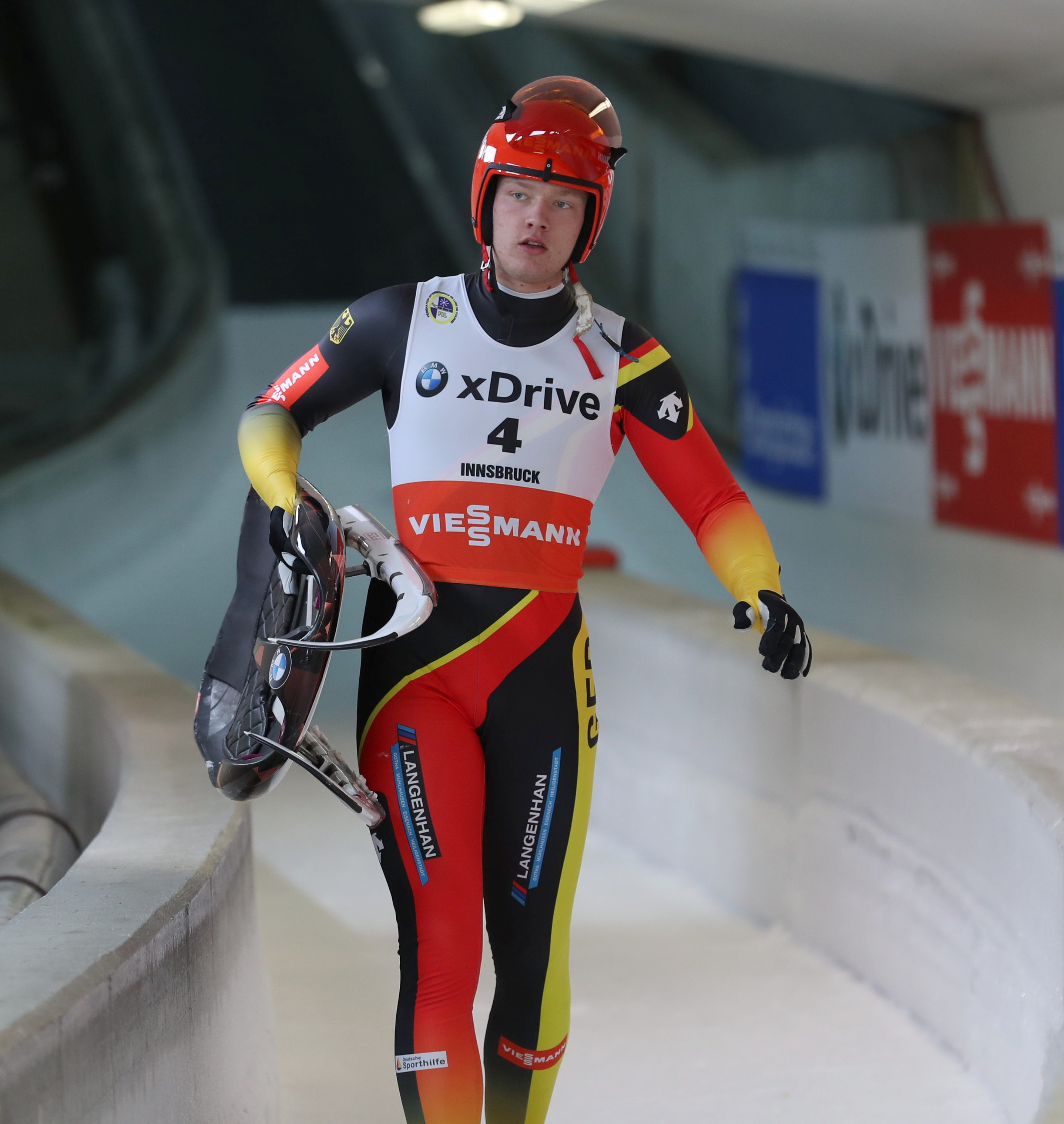 Men's Sprint World Cup race at the 2018/19 Luge World Cup in Innsbruck-Igls